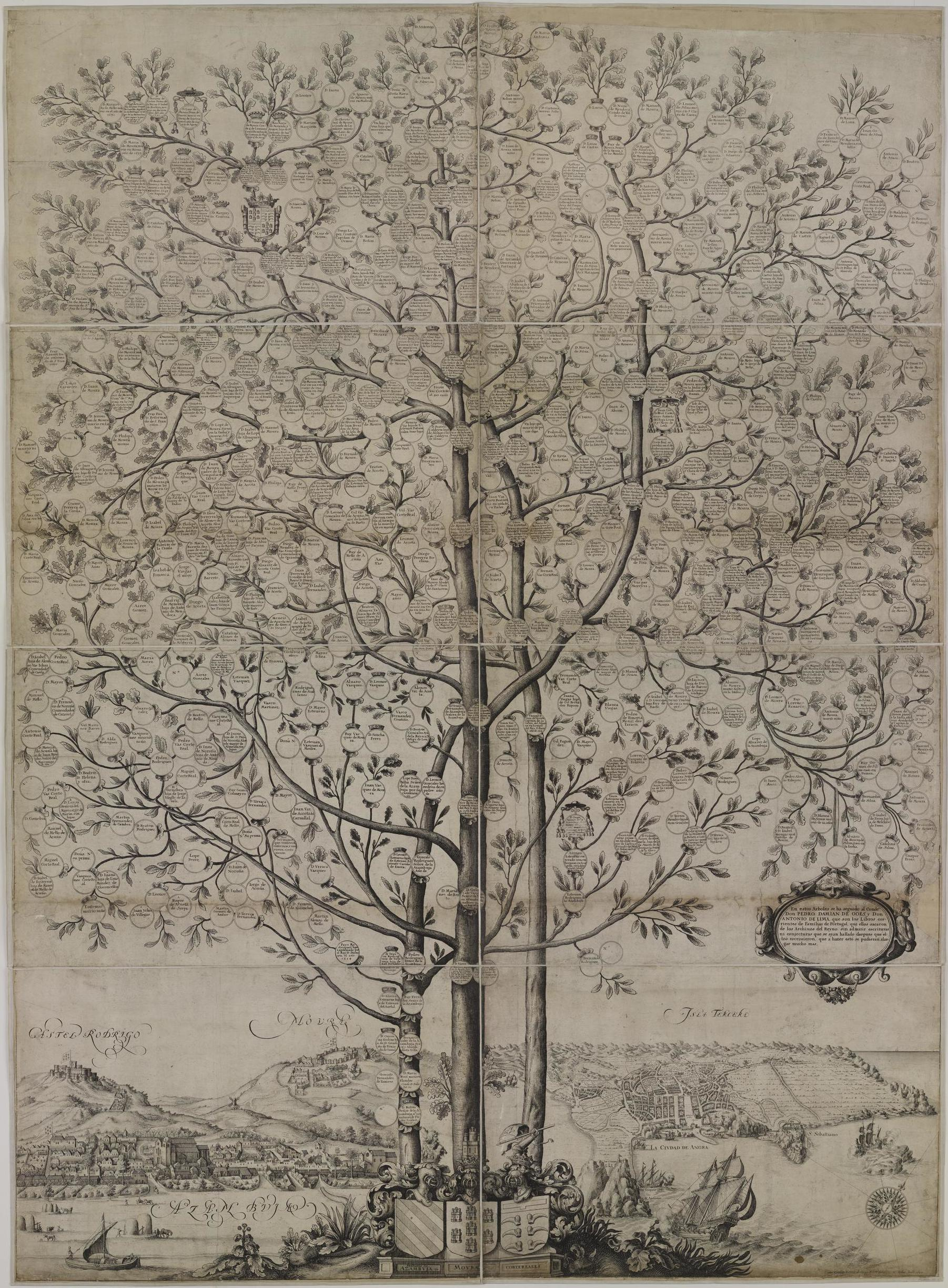 Lettered in cartouche on sixth plate with eight lines: 'En estos arboles se ha seguido al Conde Don Pedro Damian de Goes... mucho mas,'; on pedestal at lower centre of whole image: 'Senhores de Azambuia / Movras / Cortereales'; at lower right of eighth plate: 'I: van Werden Archeer de Corps. D: S M: delin: / W: Hollar fecit, 1645.'